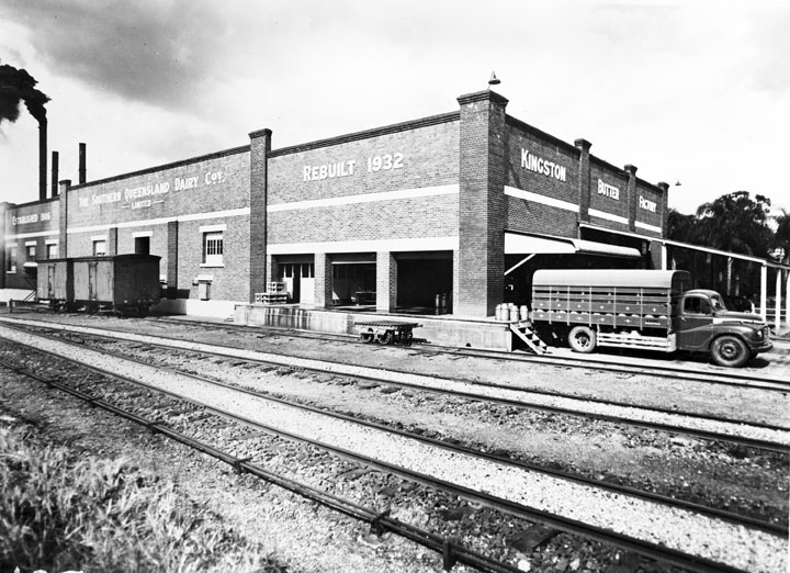 Kingston Butter Factory. (Lettering on the building reads The Southern Queensland Dairy Co. Rebuilt 1932.)